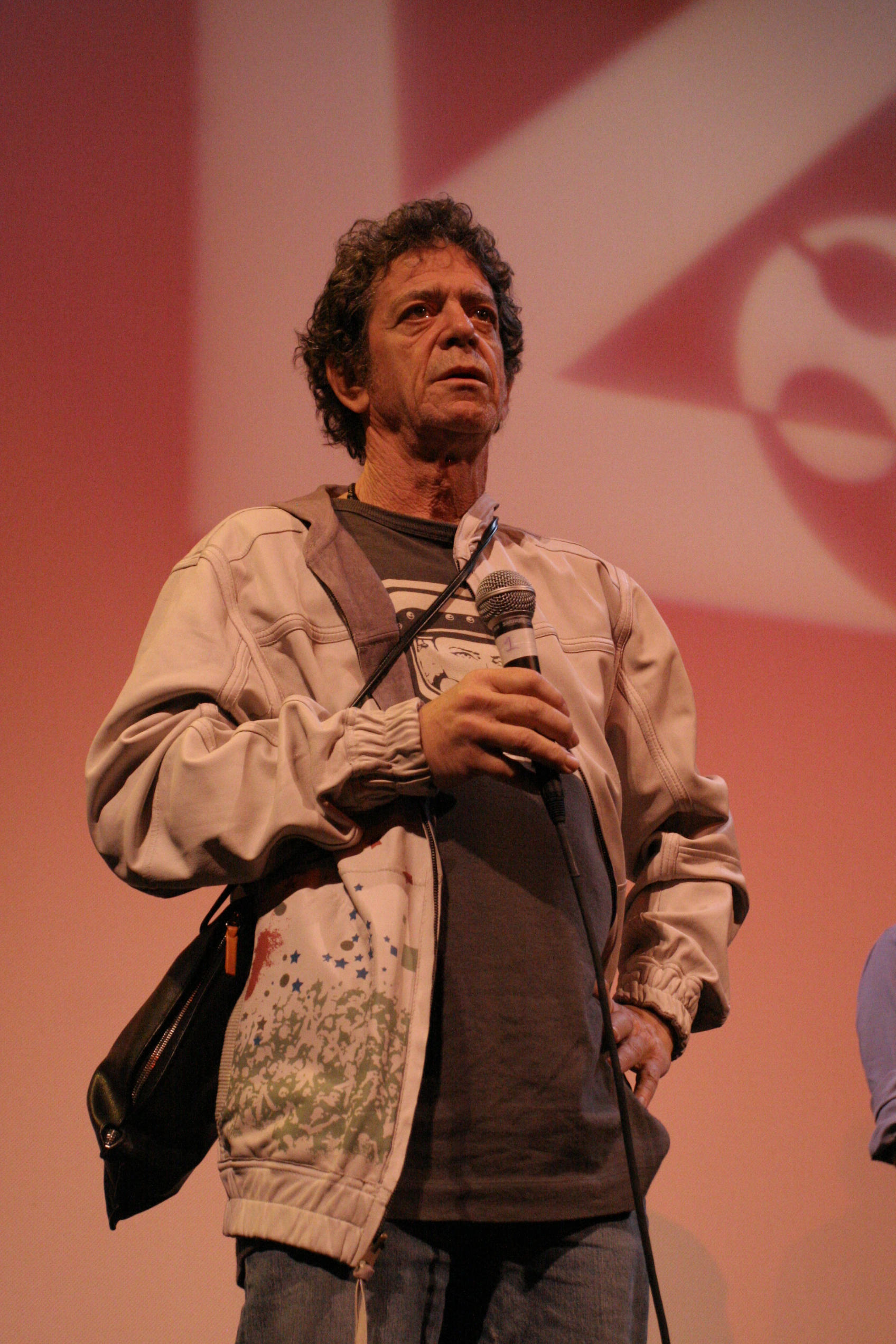 Lou Reed in 2008.